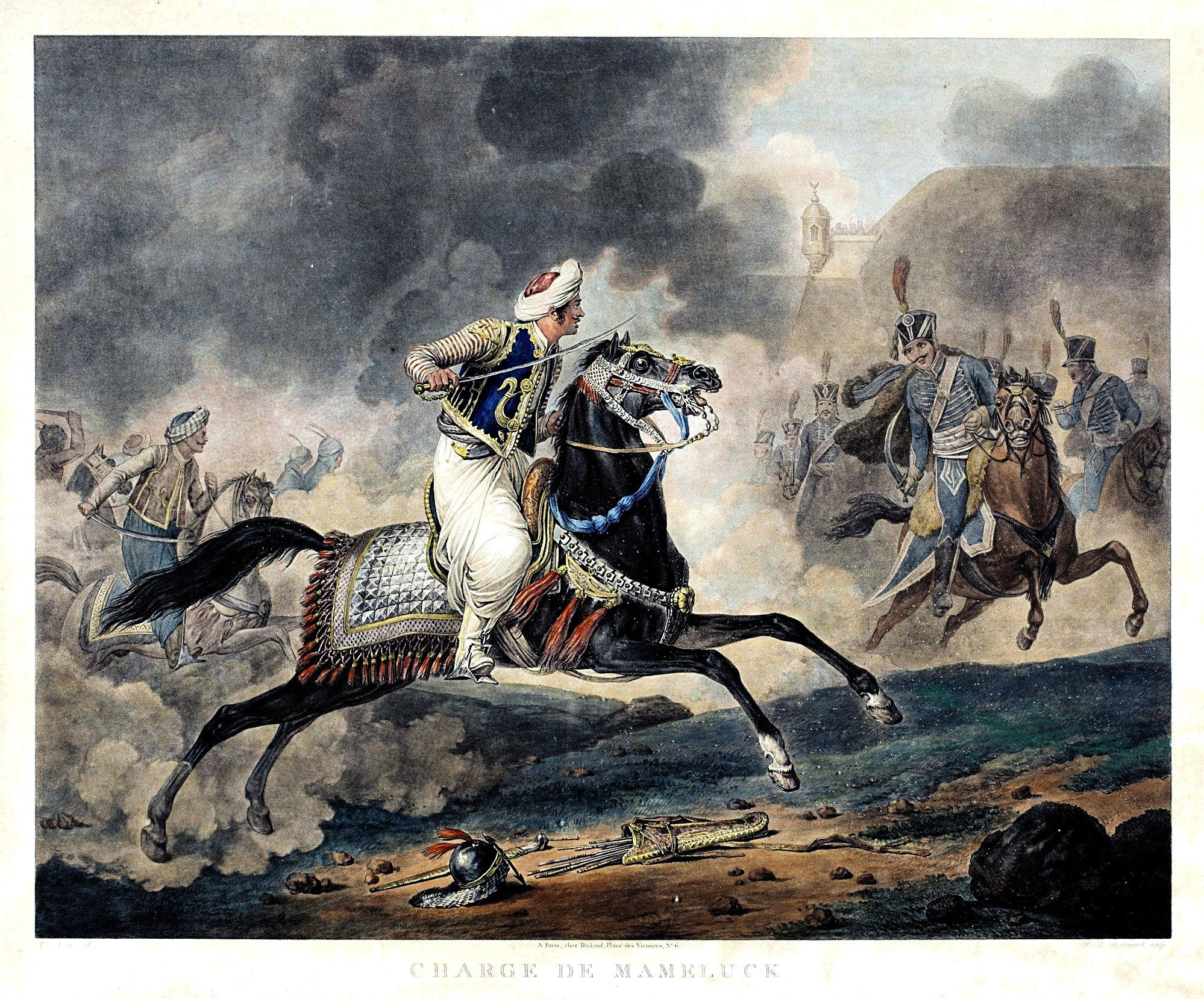 CHARGE OF MAMELOUK. Aquatints printed in colors 54 x 64 cm. ; 21 x 25 in.